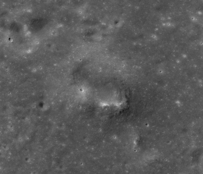 Oblique view of Osiris crater, on the moon, facing south. This is most likely a volcanic feature rather than an impact crater.